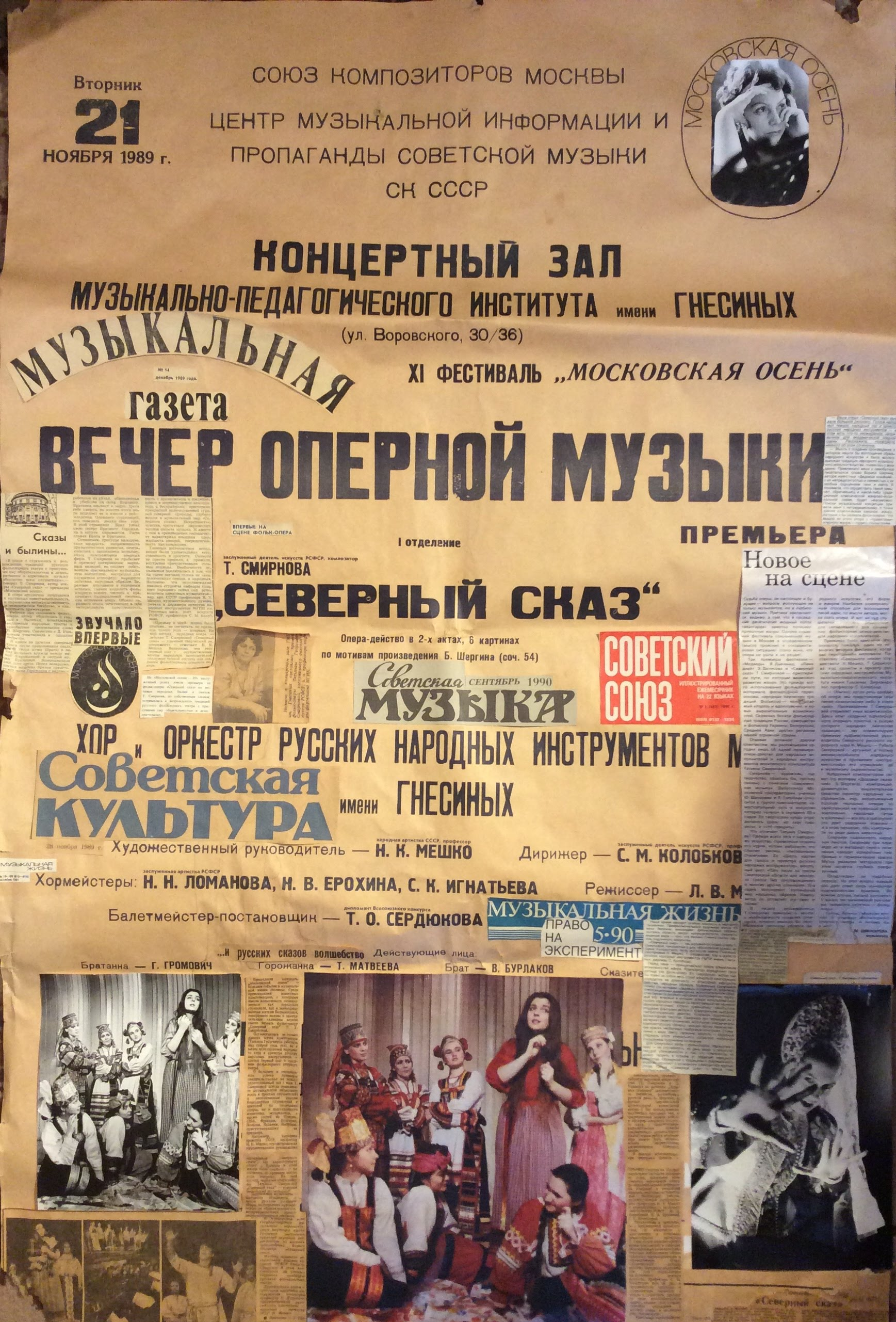 Афиша фольк-оперы "Северный сказ" Татьяны Смирновой